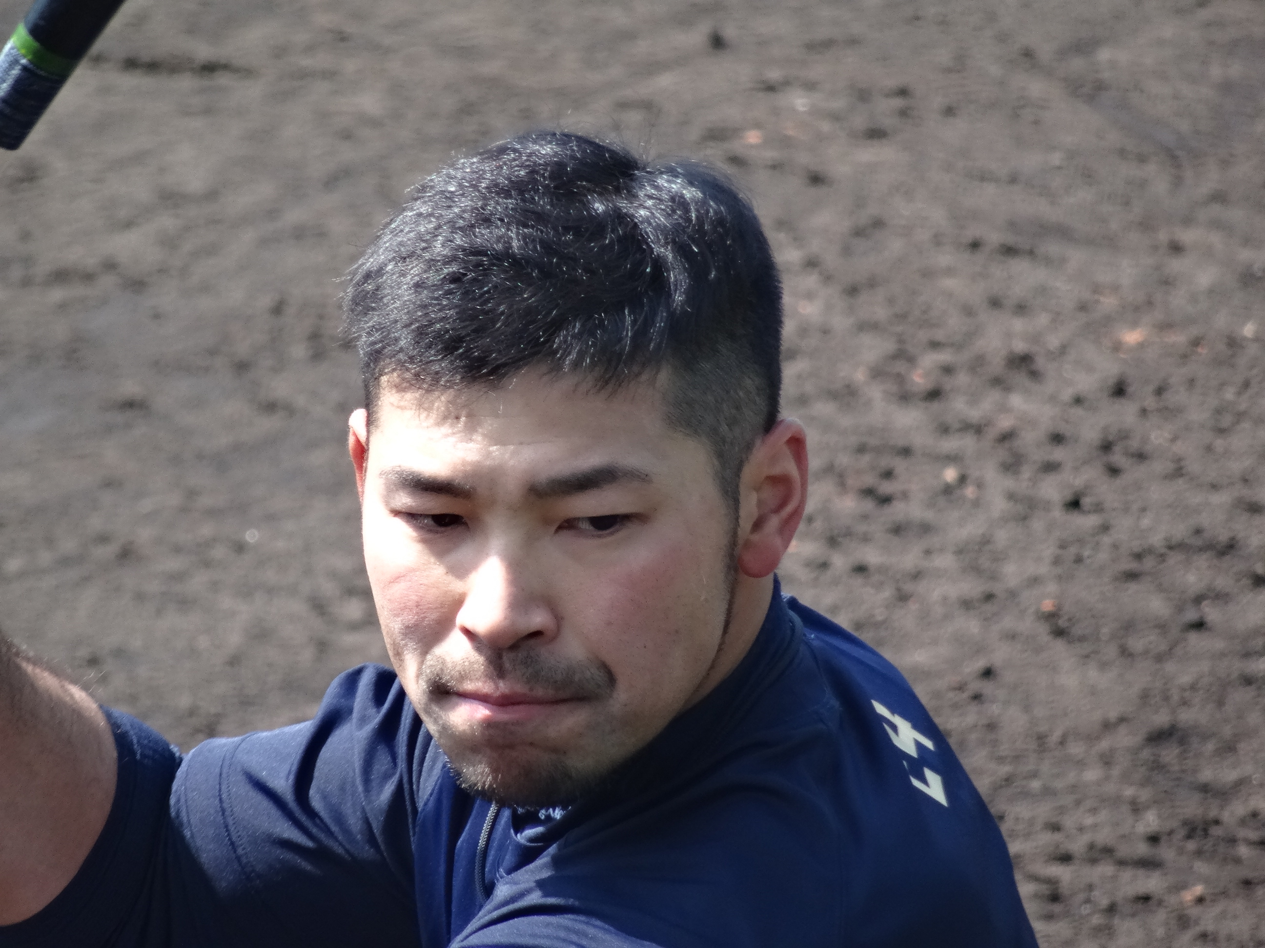 Yuki Miyazaki, outfielder of the Orix Buffaloes, at Hanshin Naruohama Baseball Ground